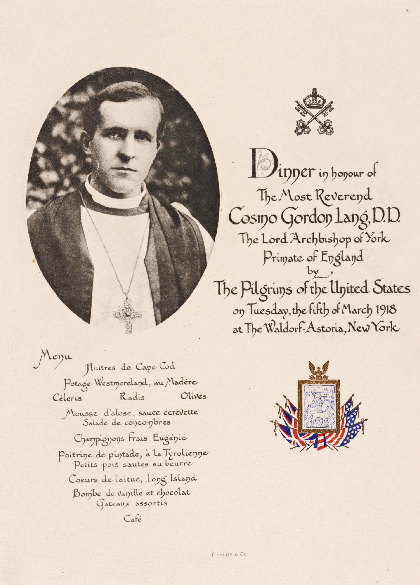 Menu for a dinner at the Waldorf-Astoria given my the Pilgrims of the United States for Cosino Gordon Lang, Archbishop of York.